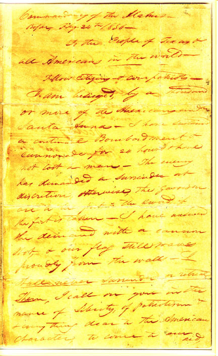 This is the first page of the letter To the People of Texas & All Americans in the world, written by William Barret Travis during the Battle of the Alamo. Travis died March 6, 1836.